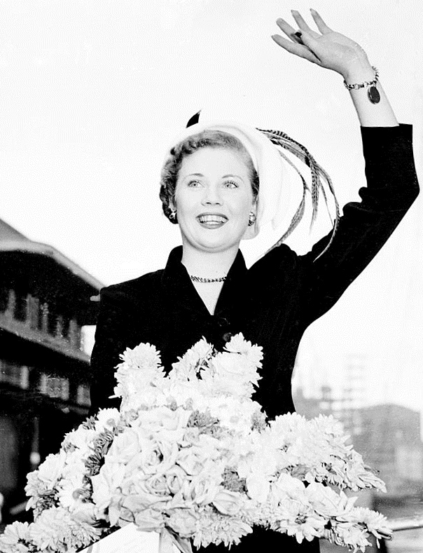 Miss Australia, Margaret Hughes, boards the Orcades at Pyrmont, Sydney, 29 April 1950.